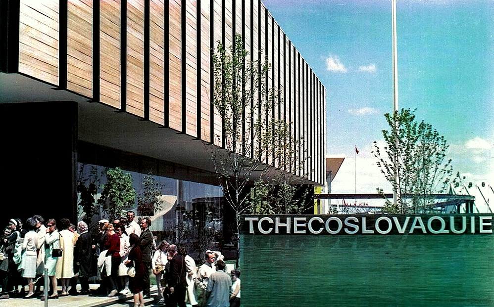 Pavilion of Czechoslovakia at Universal Exposition of 1967, Montreal, Quebec, Canada